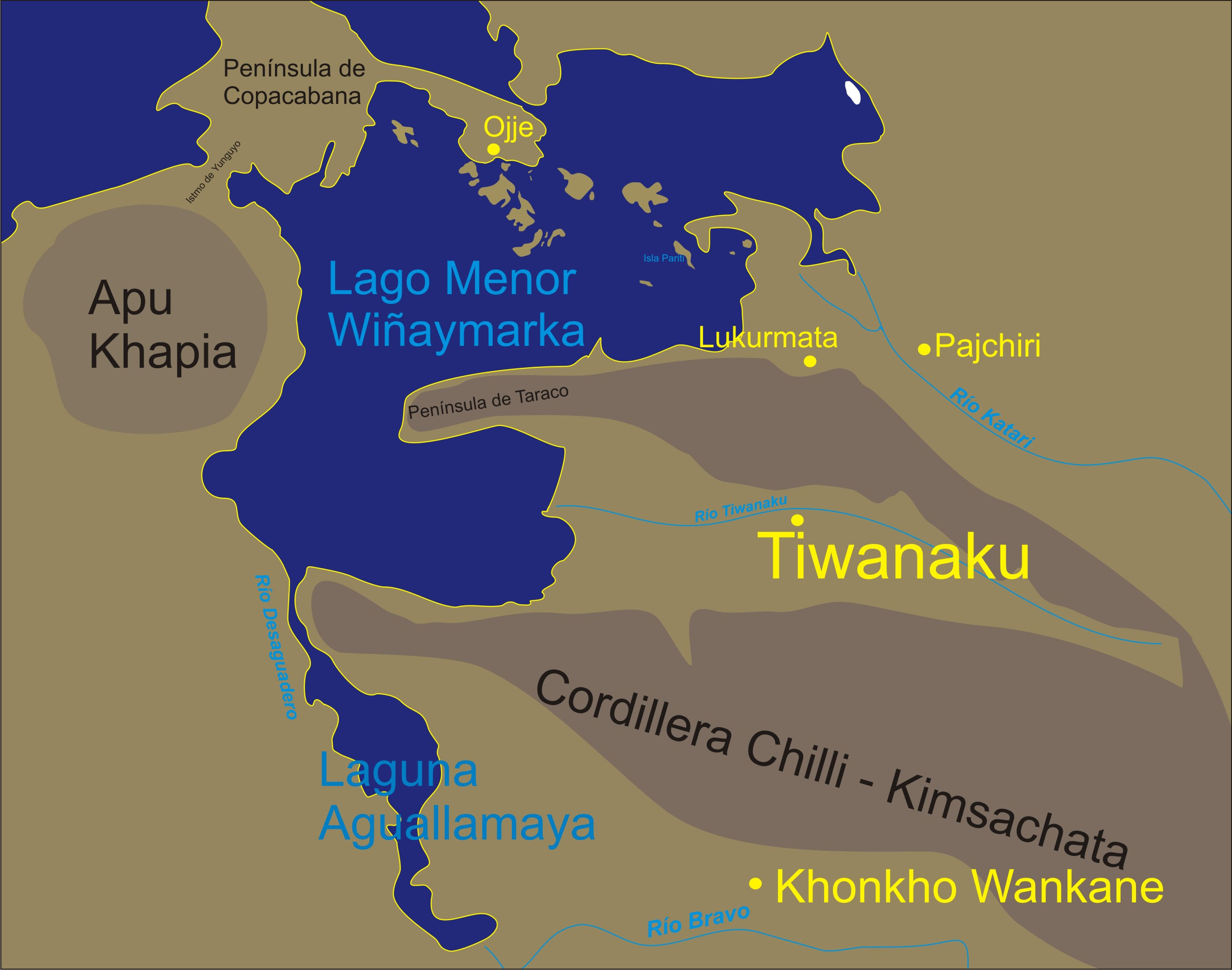 Mapa de ubicación de las ciudades tiahuanacotas de Tiwanaku, Ojje, Pajchiri, Lukurmata y Khonkho Wankane.